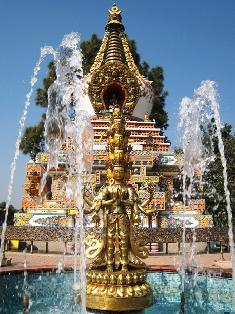 Kopan Monastery, Kathmandu, Nepal